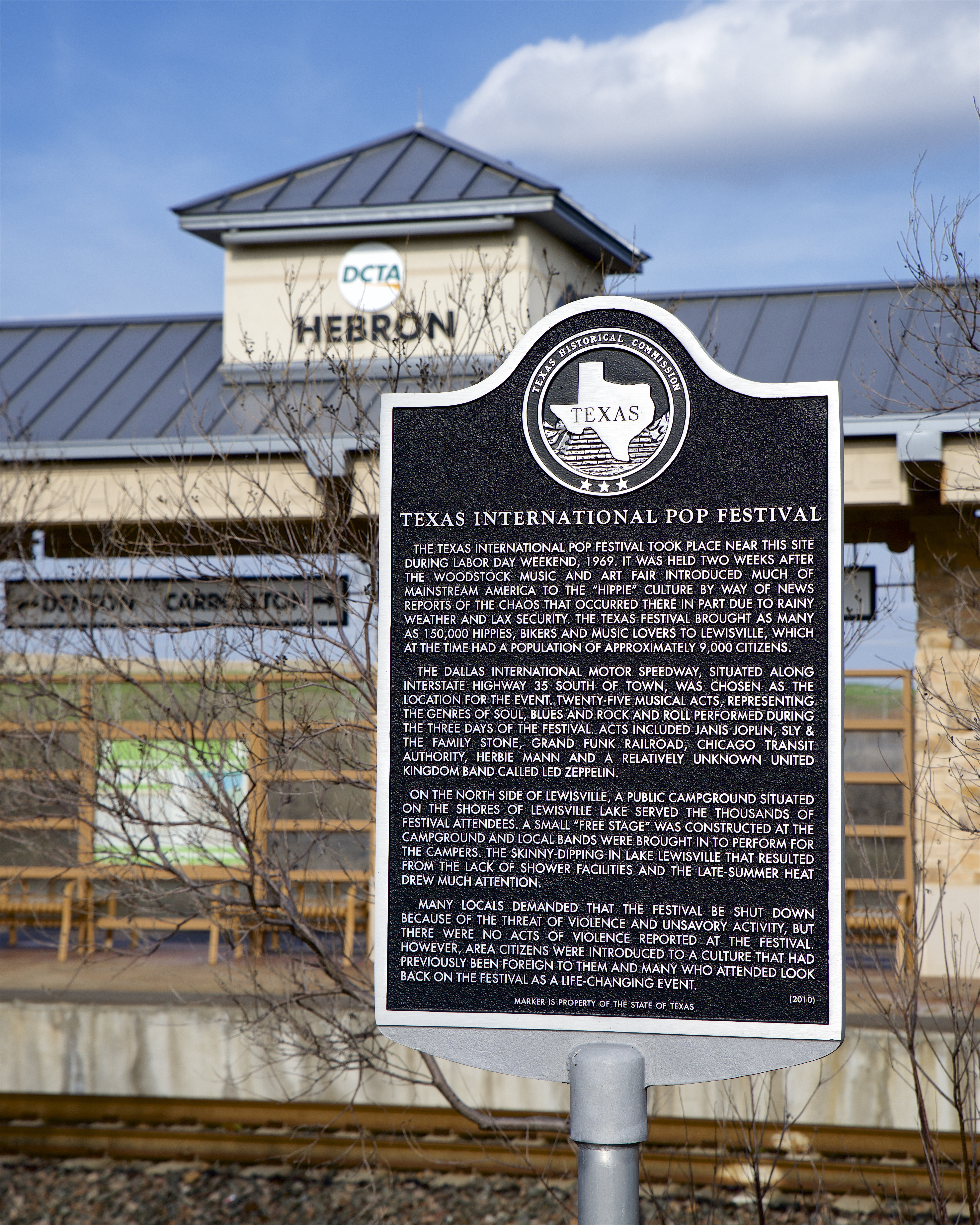 Texas Historical Commission marker placed at Hebron station (former site of the defunct Dallas International Motor Speedway) in Lewisville, Texas. The marker was placed in 2010 to commemorate the location of the Texas International Pop Festival which took place at the speedway in September 1969.